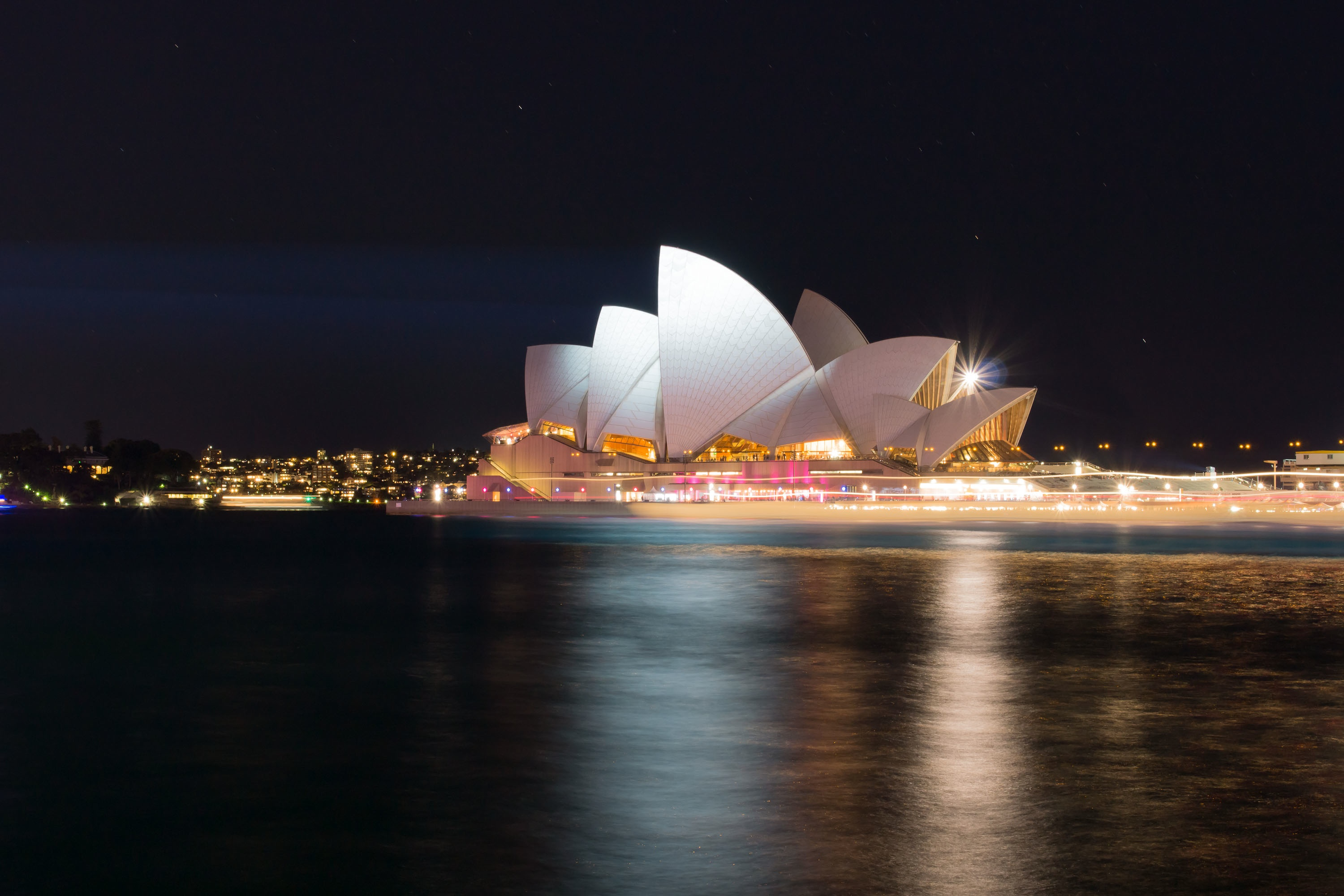 Sydney Opera House